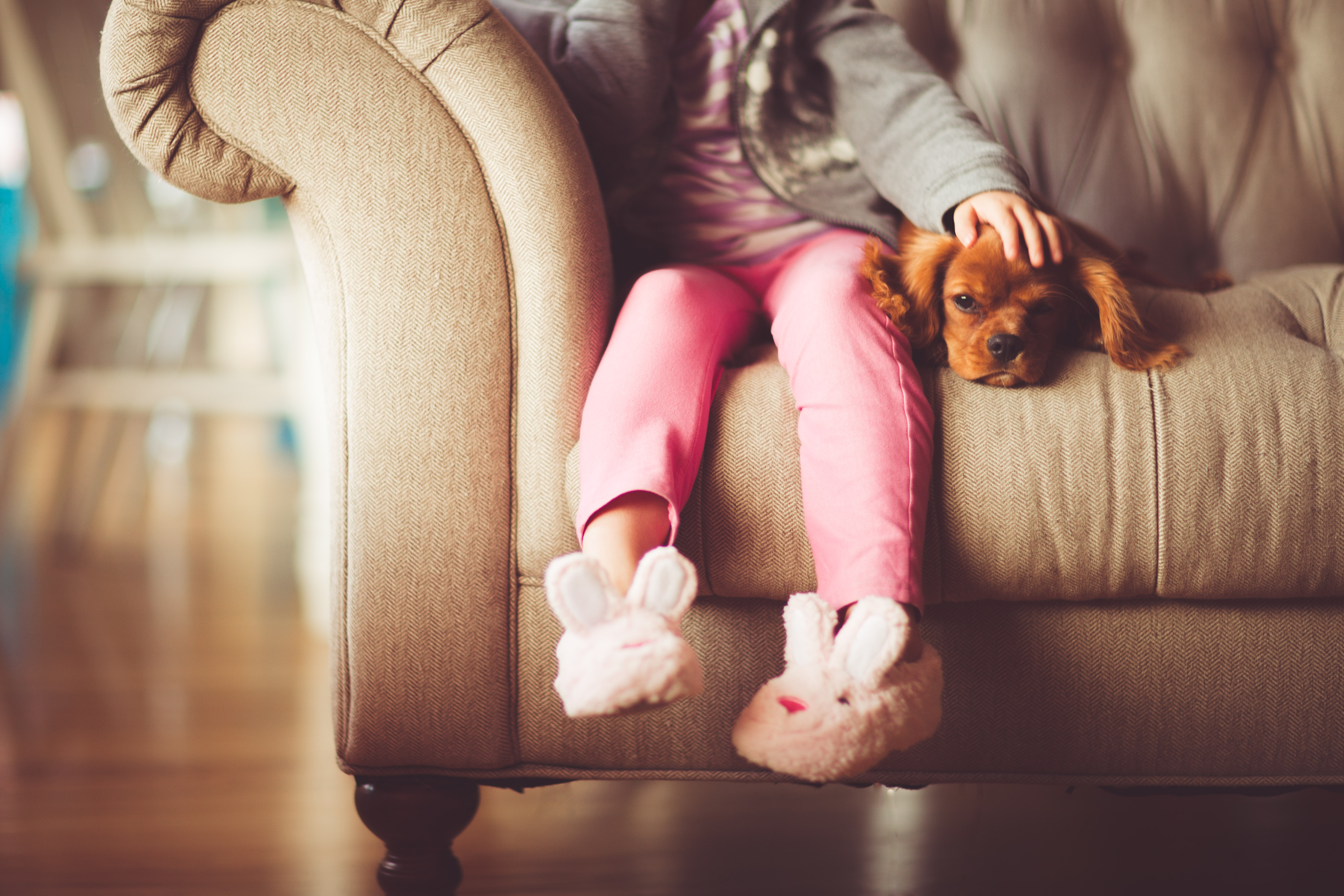 Highland, United States